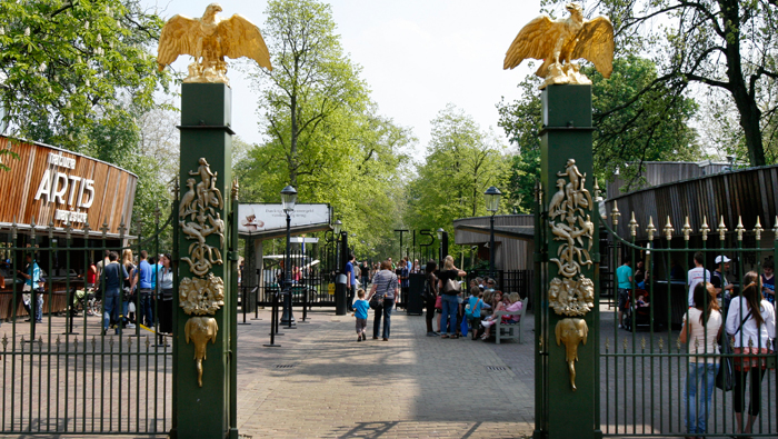 Entrance to Artis Royal Zoo Amsterdam